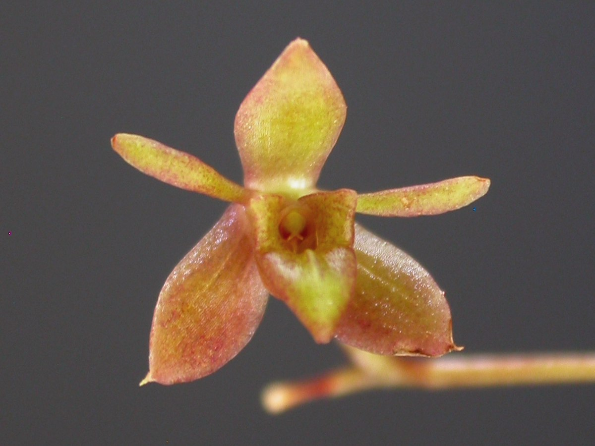 Epidendrum compressum